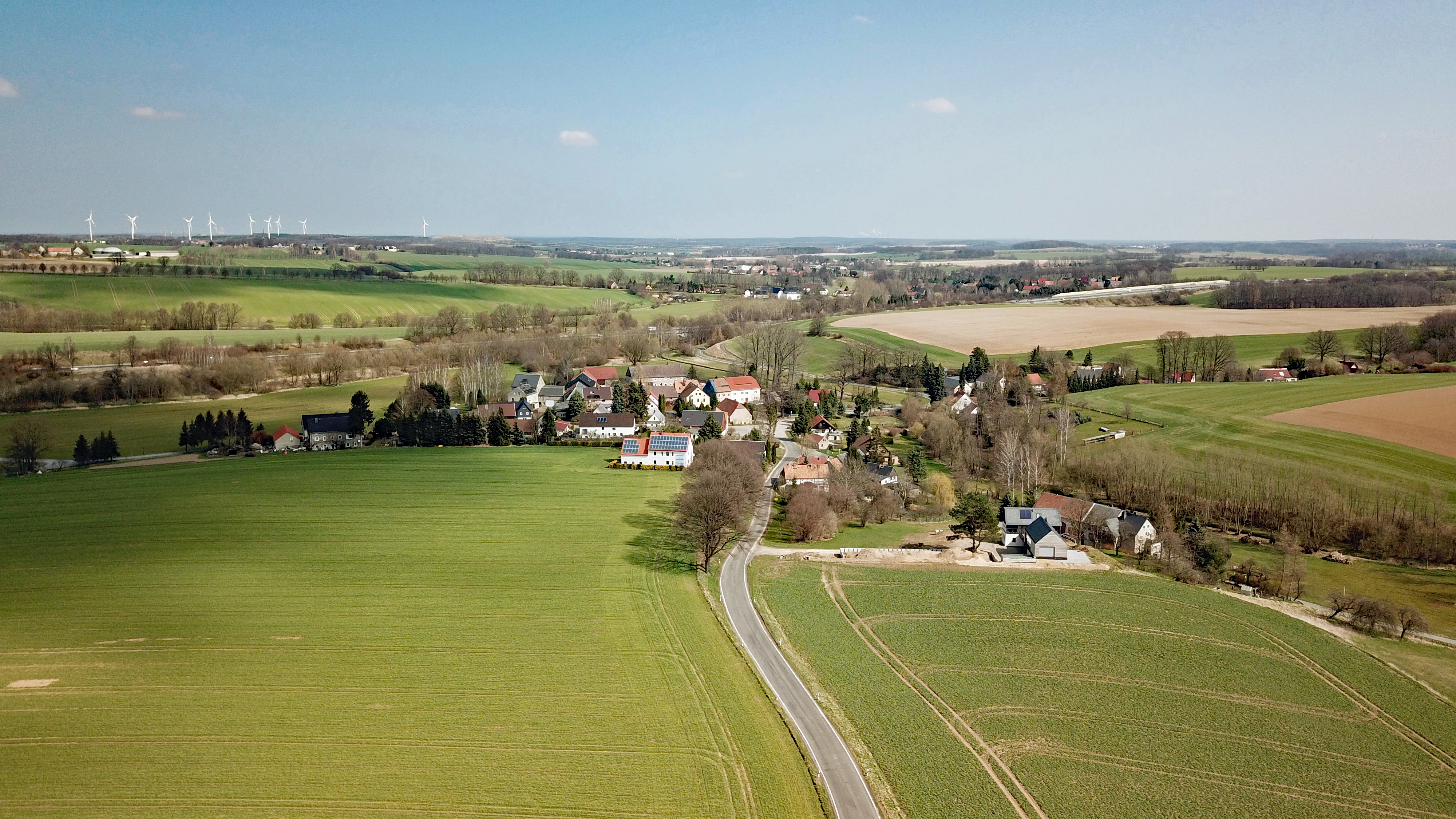 Pietzschwitz (Göda, Saxony, Germany) Hornjoserbsce: Powětrowy wobraz Běčic